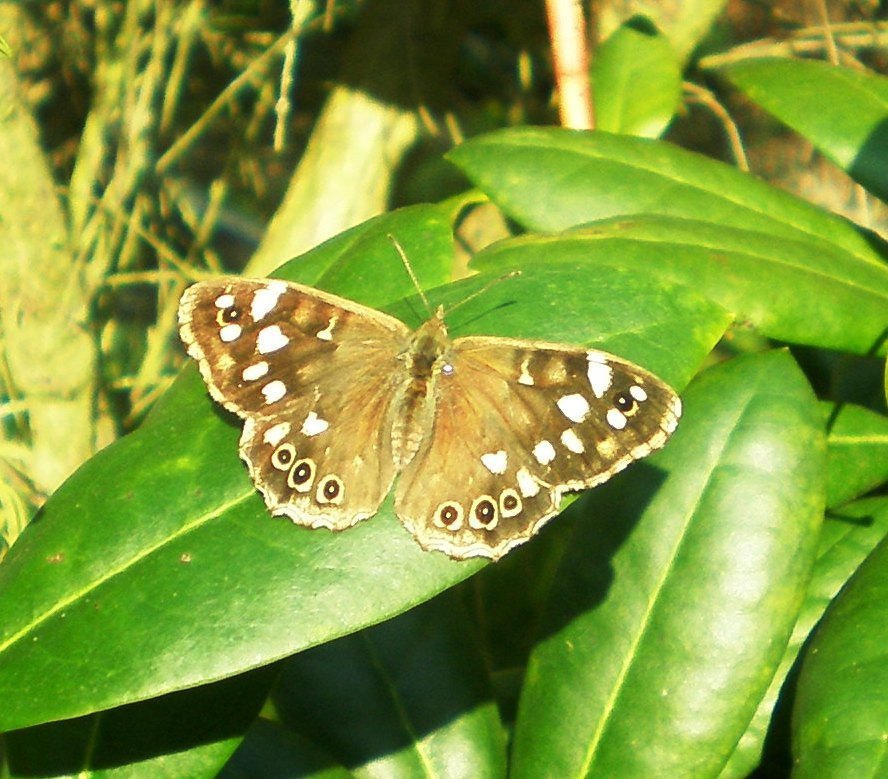 Speckled Wood